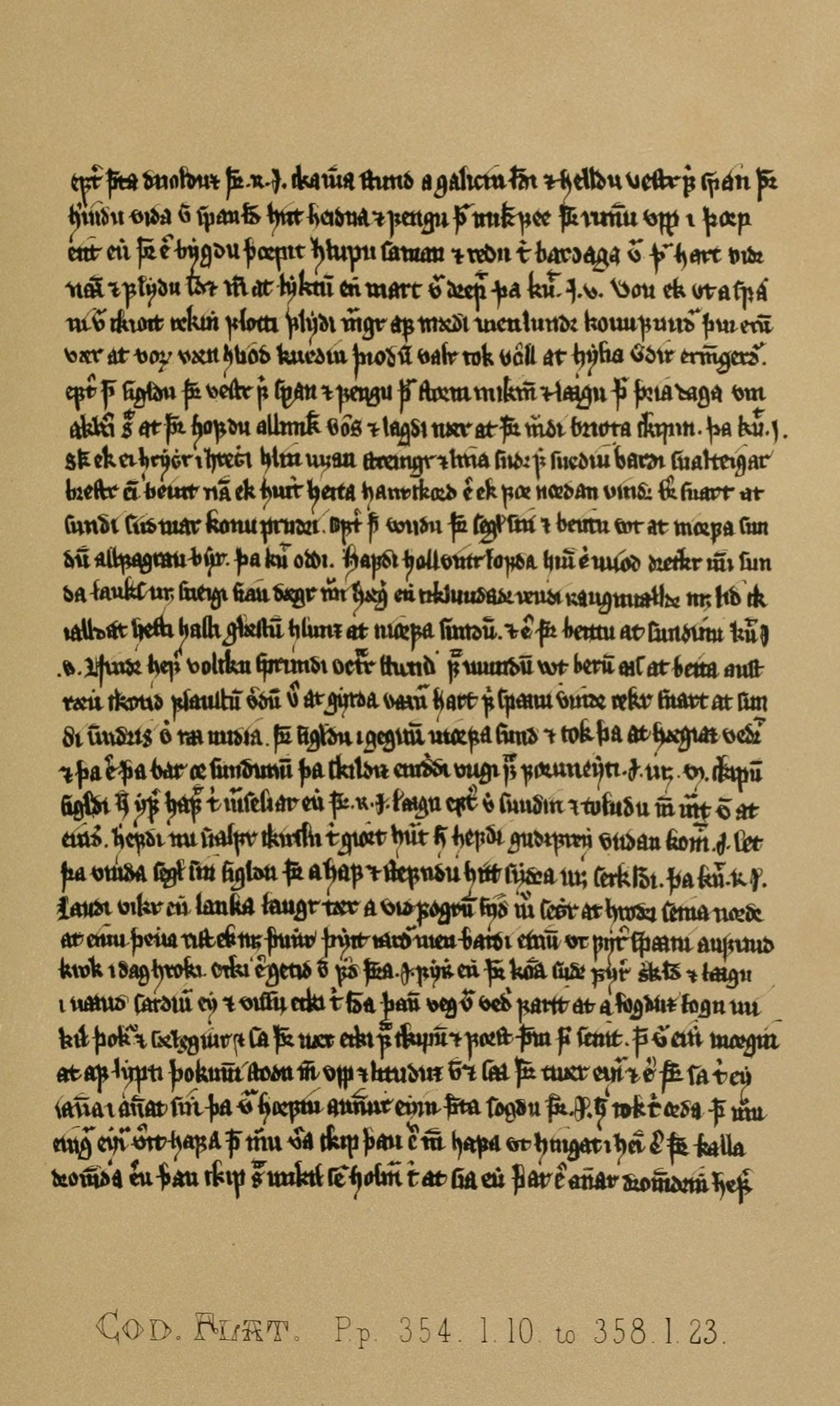 An example of a page from the Flatey Book, containing a part of chapter 93 of the Orkneyinga saga.